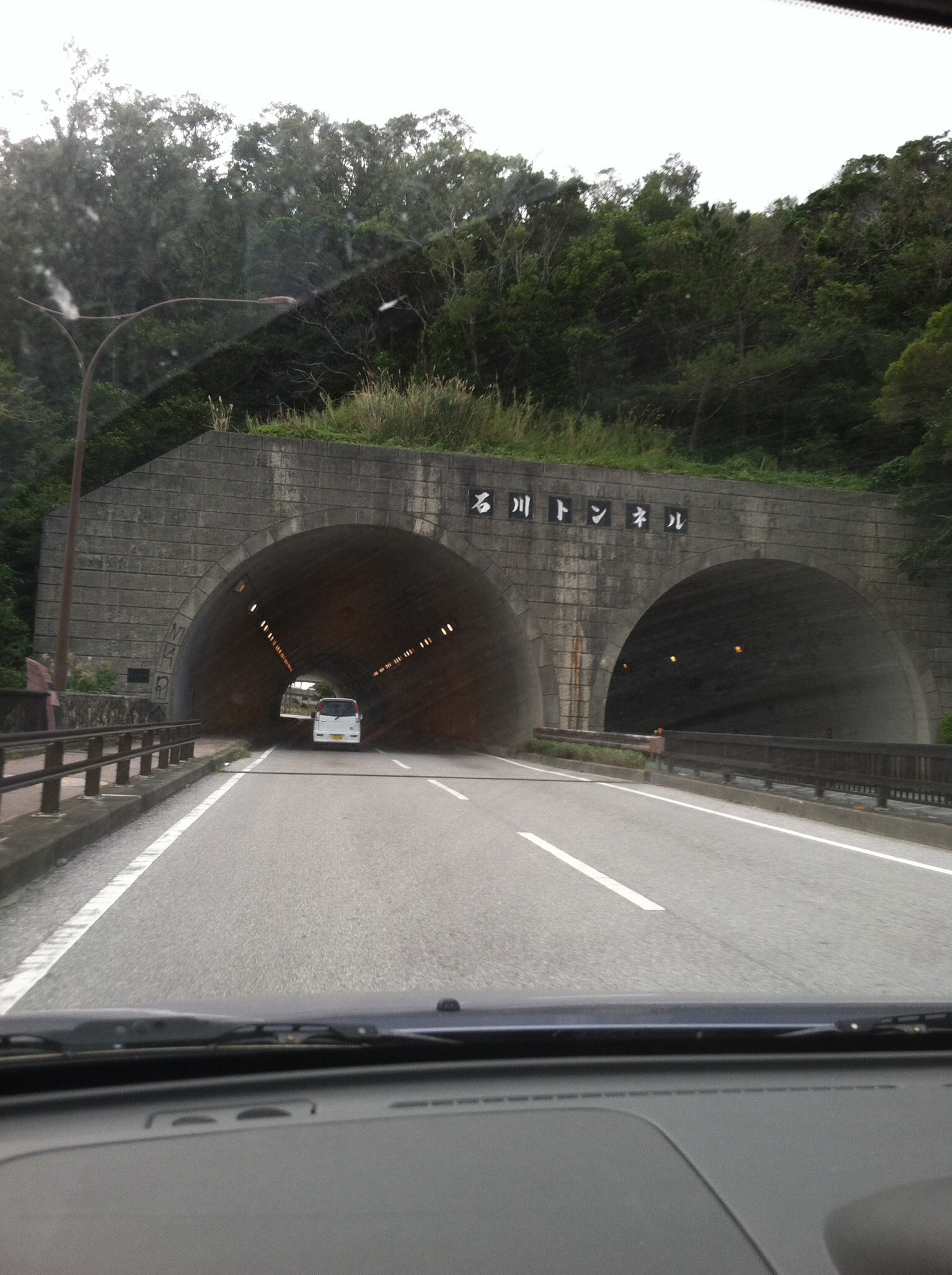 Ishikawa Tunnel on Ishikawa By-pass southbound.